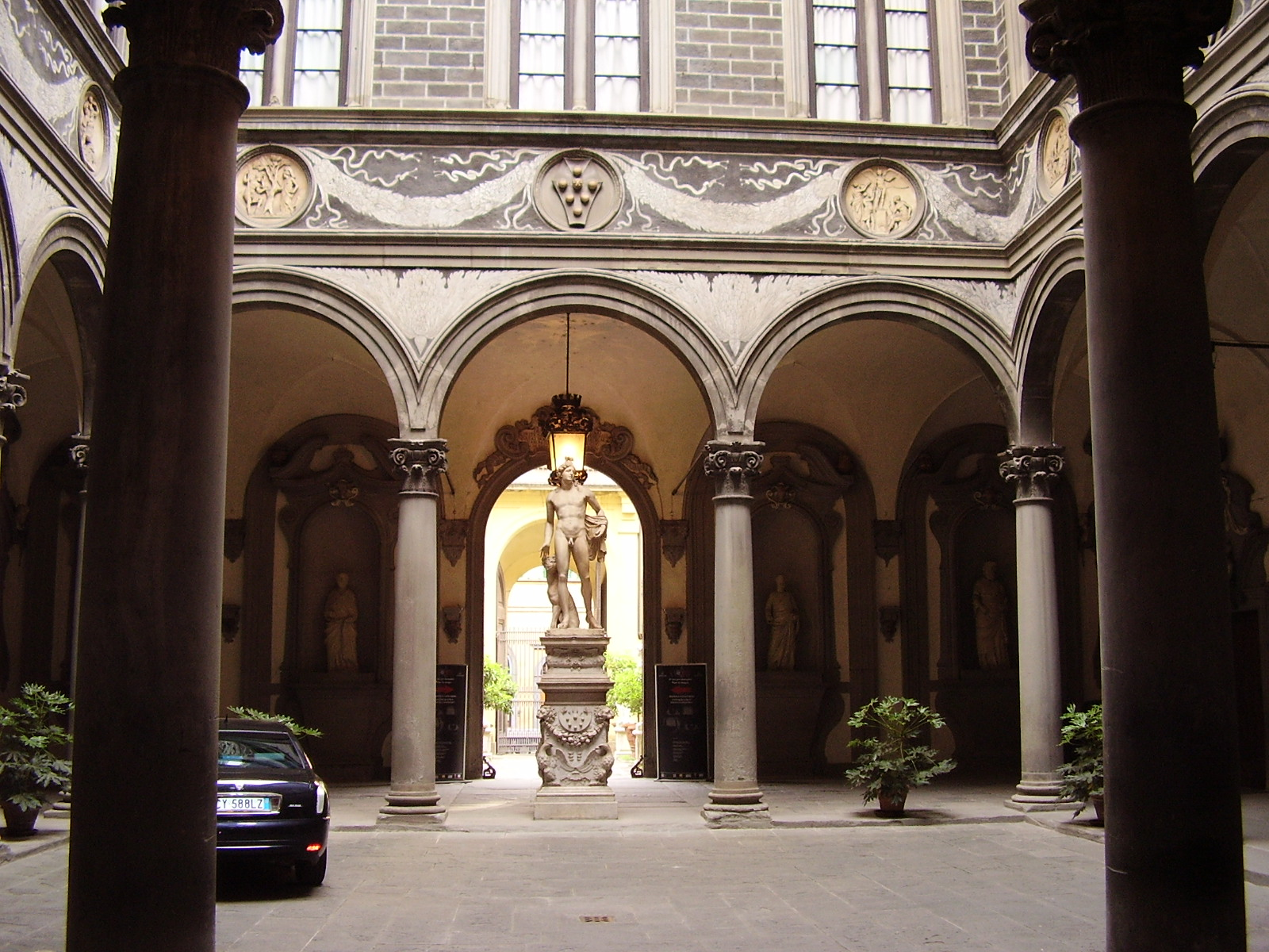 Palazzo Medici Riccardi in Florence, Italy: courtyard, with the statue of Orpheus and Cerberus, by Baccio Bandinelli.